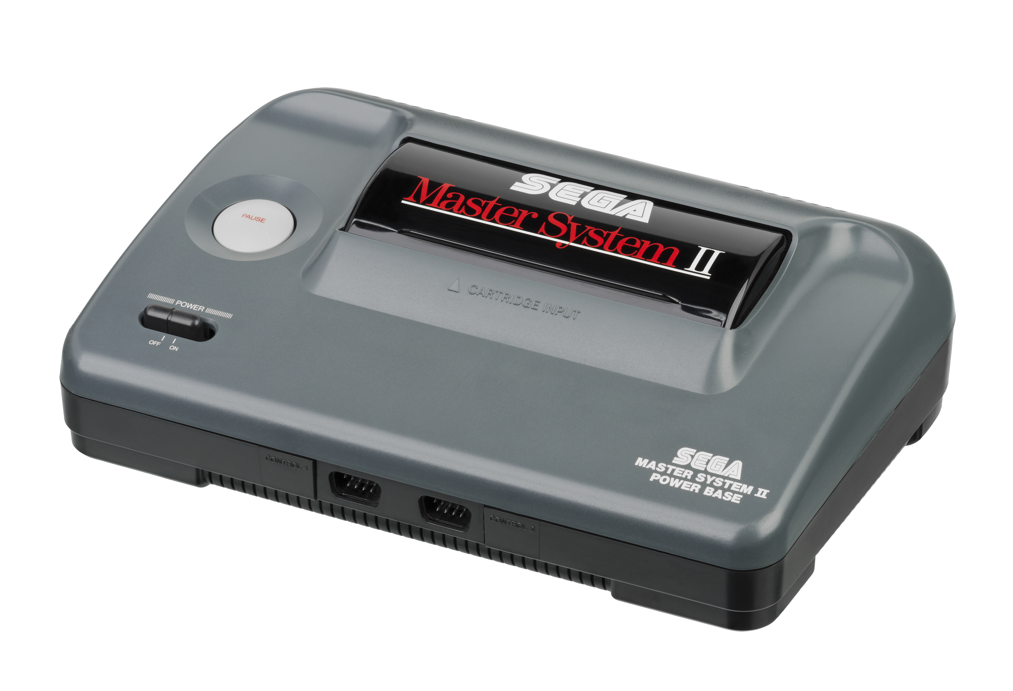 The Sega Master System, a 2nd generation video game console by Sega that was released worldwide beginning in 1986. This is the revised, economized version of the Master System, with omitted the card slot and non-RF video out. It came a game or two built into the system, which depended on the region and when it was manufactured.